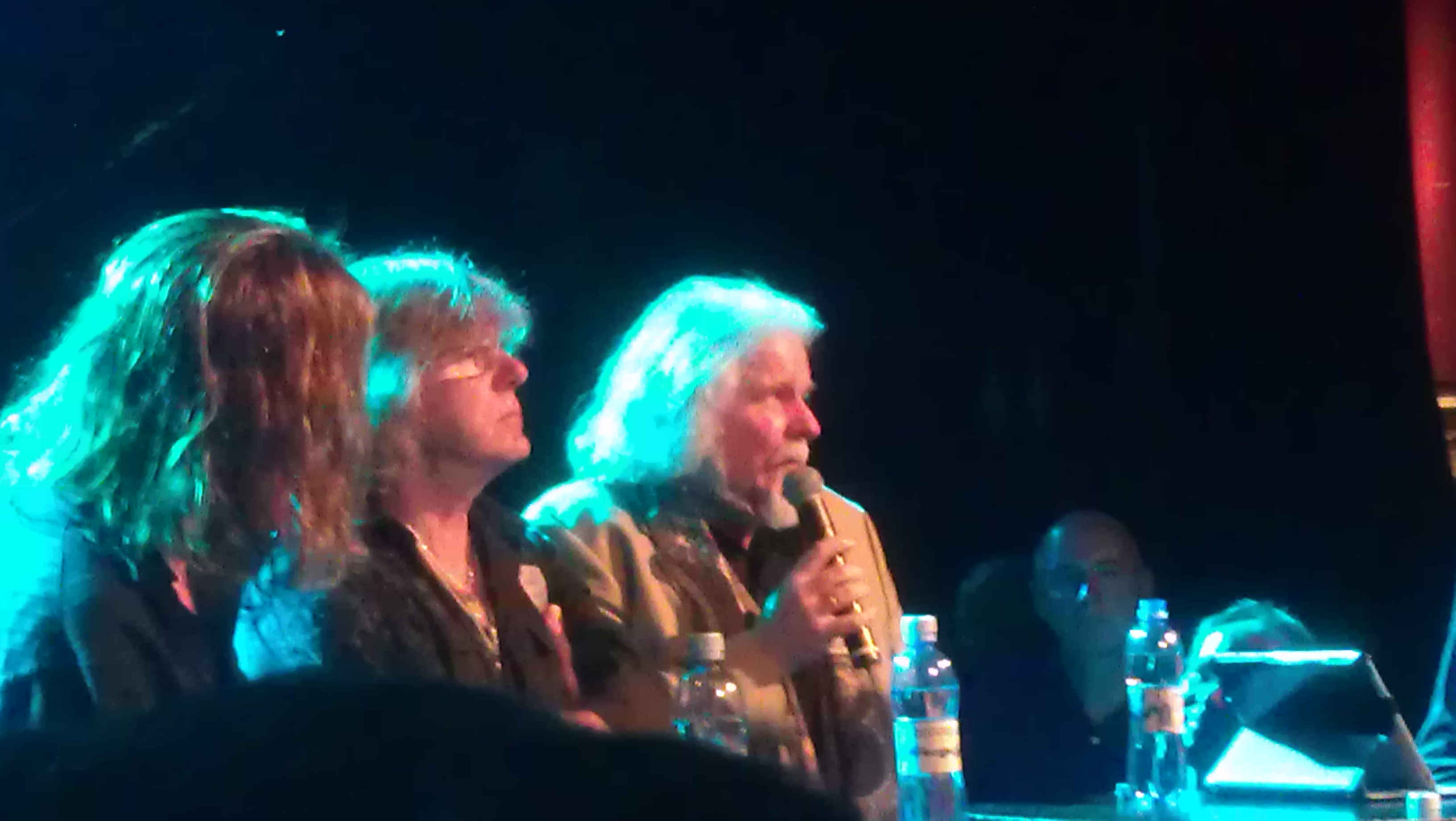 Keith Emerson, Marc Bonilla and Terje Mikkelsen in Parkteateret in Oslo 3. september 2012